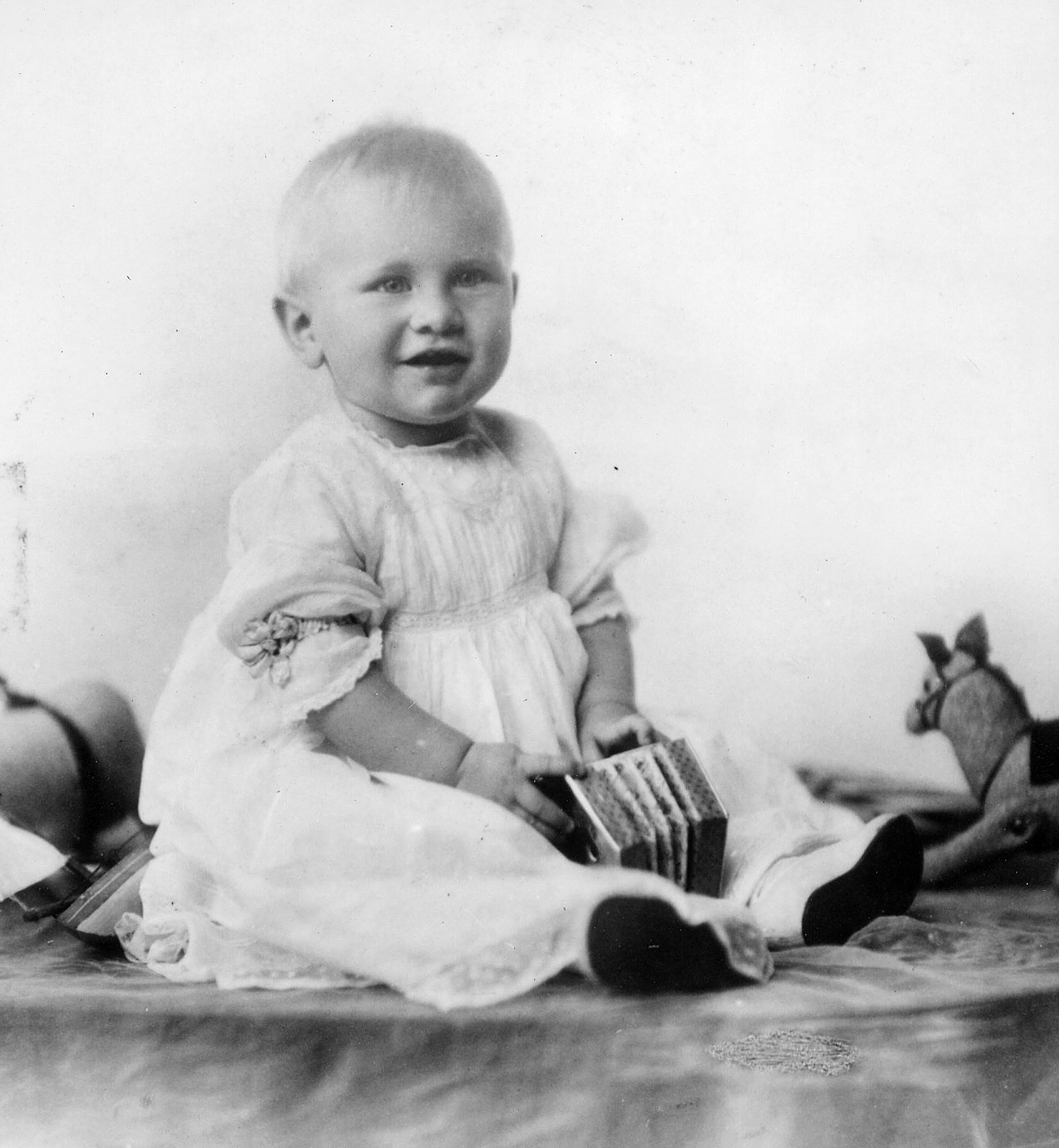 Photo portrait of future U.S. President Gerald Ford, around ten months old. ca. June 1914